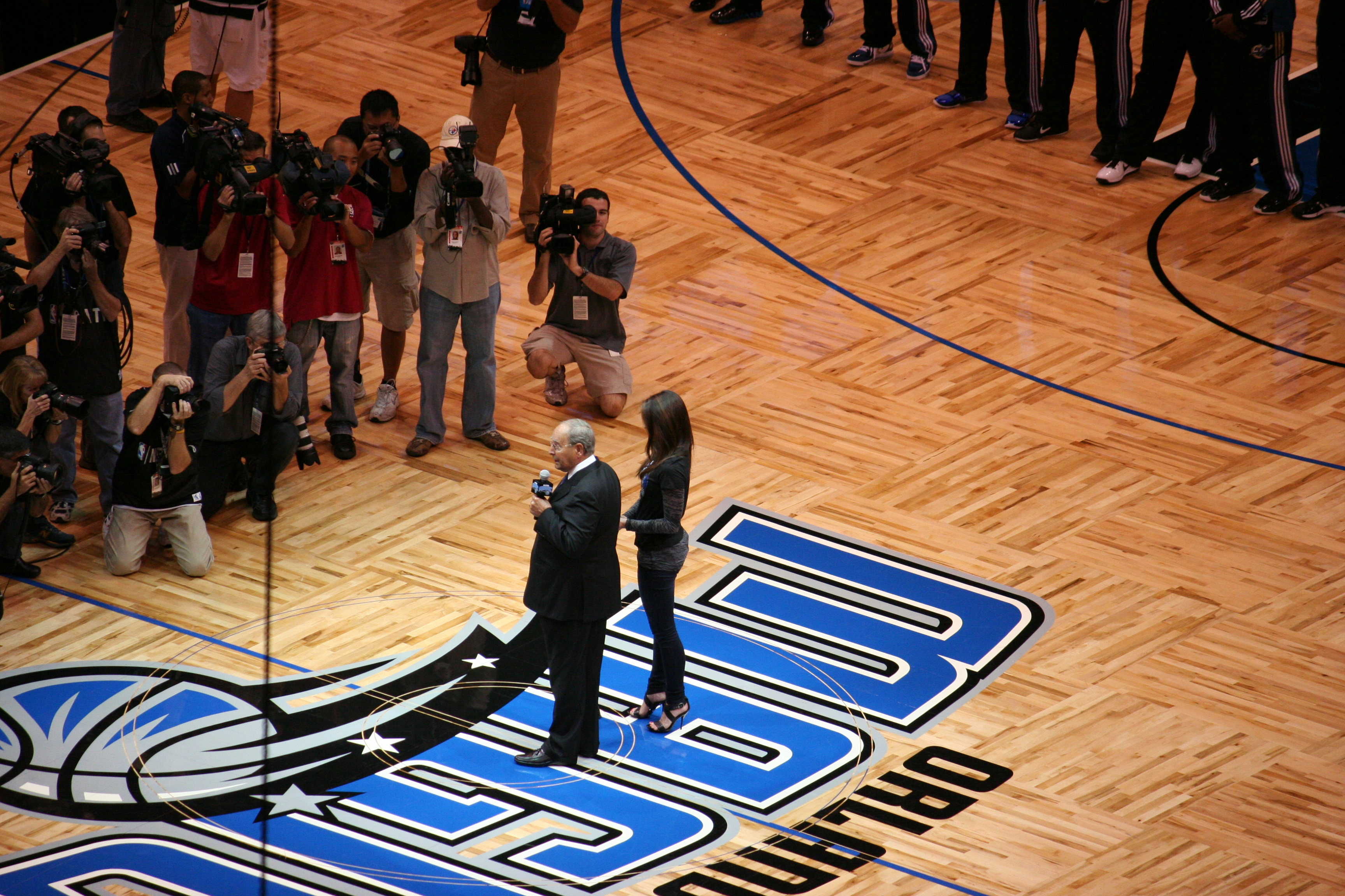 Magic owner Rich DeVos welcoming fans and thanking the City of Orlando for their support of the franchise before the Magic's first regular season home game in the new arena.